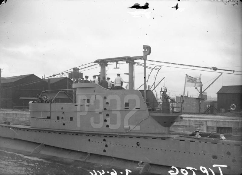 Radar and Electronic Warfare 1939-1945 Naval Radar: Detailed view of the port side of the conning tower of HMS/M TIPTOE showing the aerial for the American-supplied SJ surface search radar on its fixed mounting at the after end of the periscope standards.